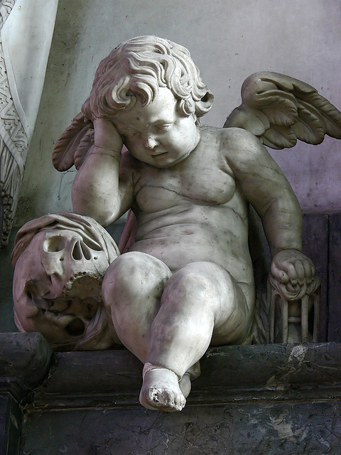 Weeping Angel part of mausoleum of cannon Guilain Lucas (d1628) by Nicolas Blasset.